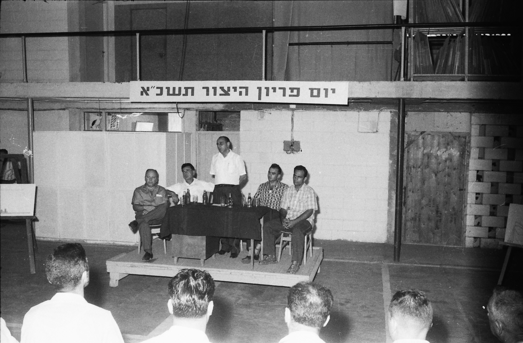 Lod Kartones Limited [1] (later Kargal Limited [2]) factory in Lod, Israel. Productivity meeting.